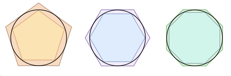 JPEG version of SVG image on Wikimedia Commons at [1]